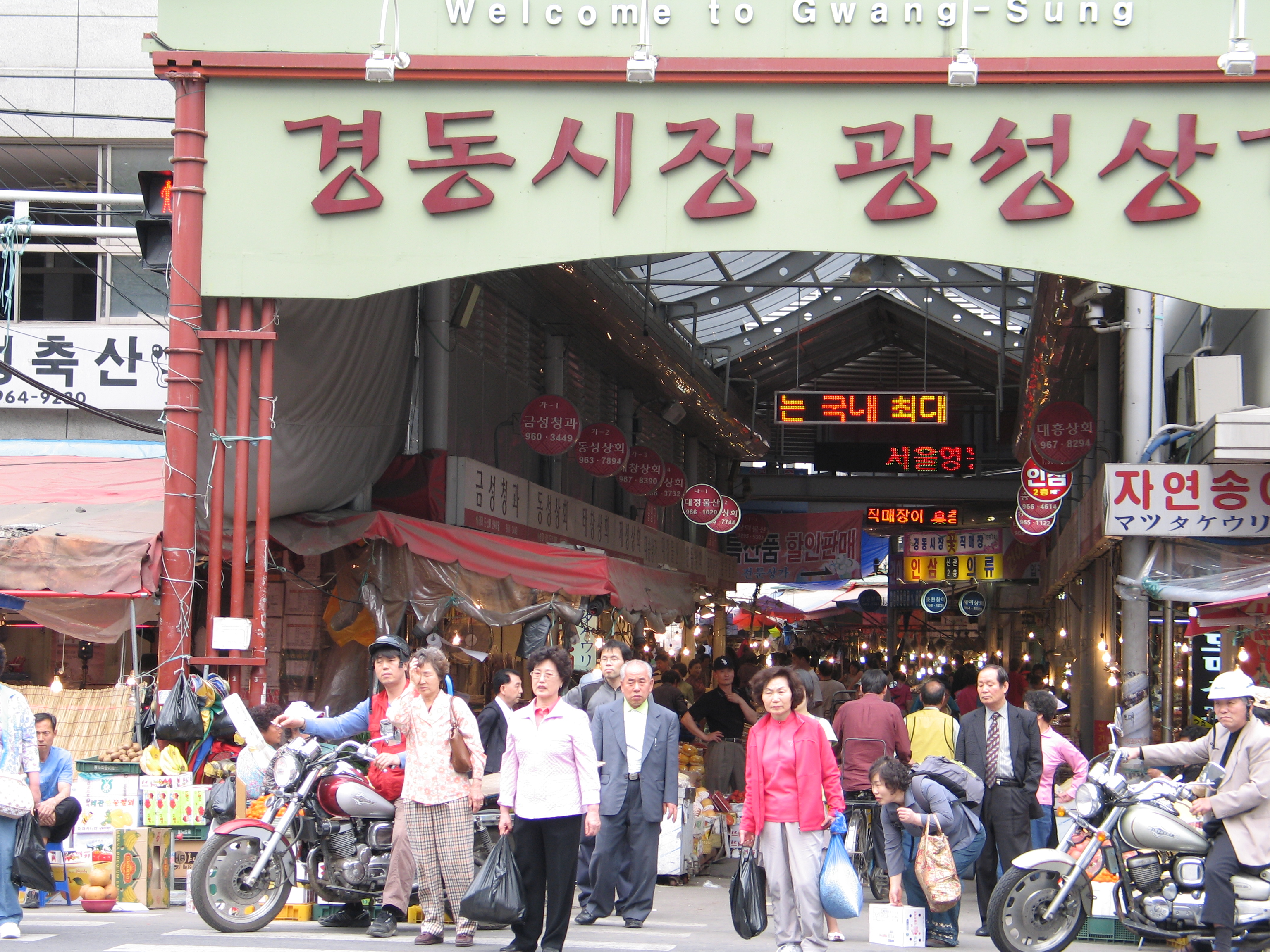 Gyeongdong Market, located in Jaegi-dong area of Dongdaemun-gu, Seoul is the largest oriental herbal market of South Korea.